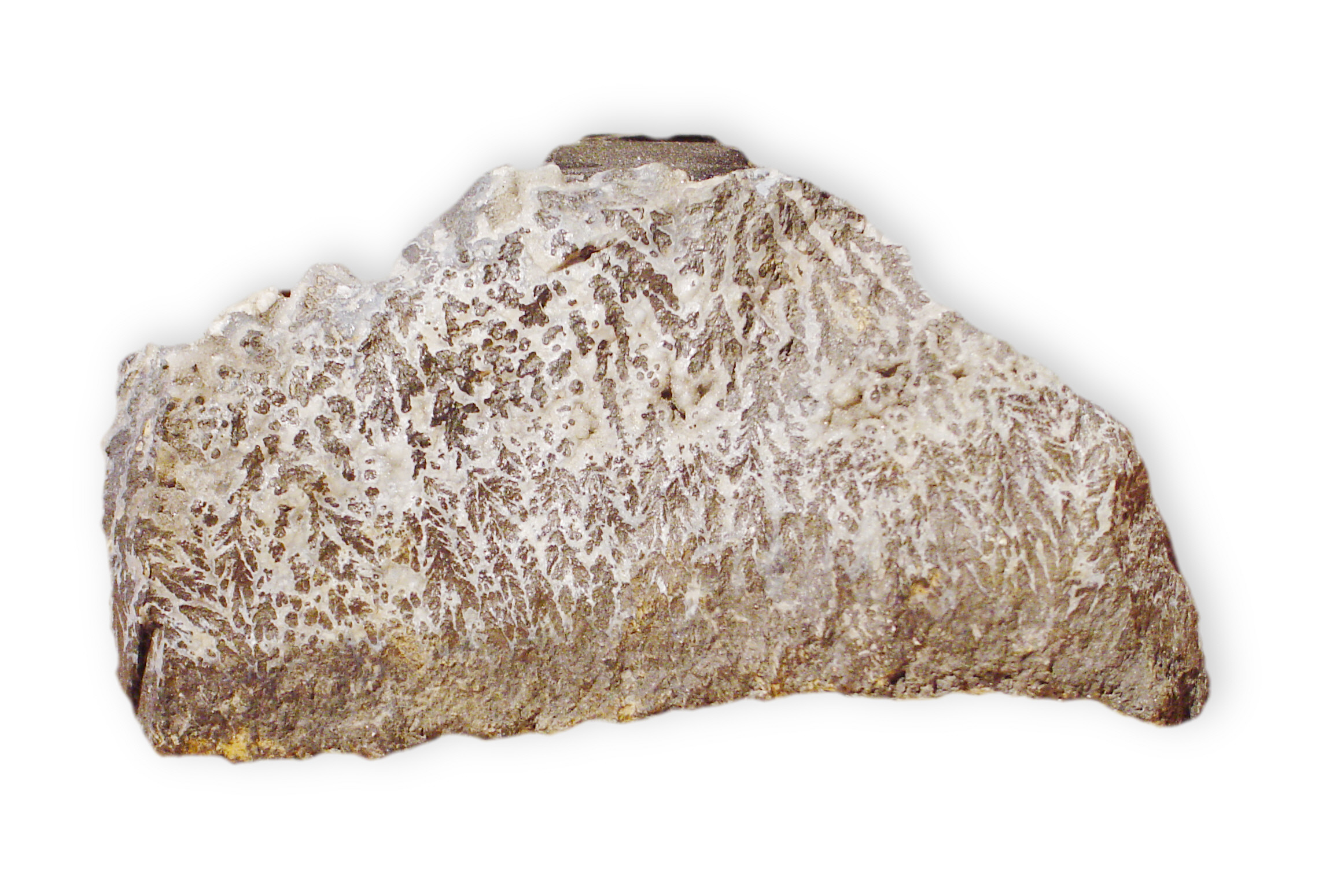 These mineral images are free to use how you wish.